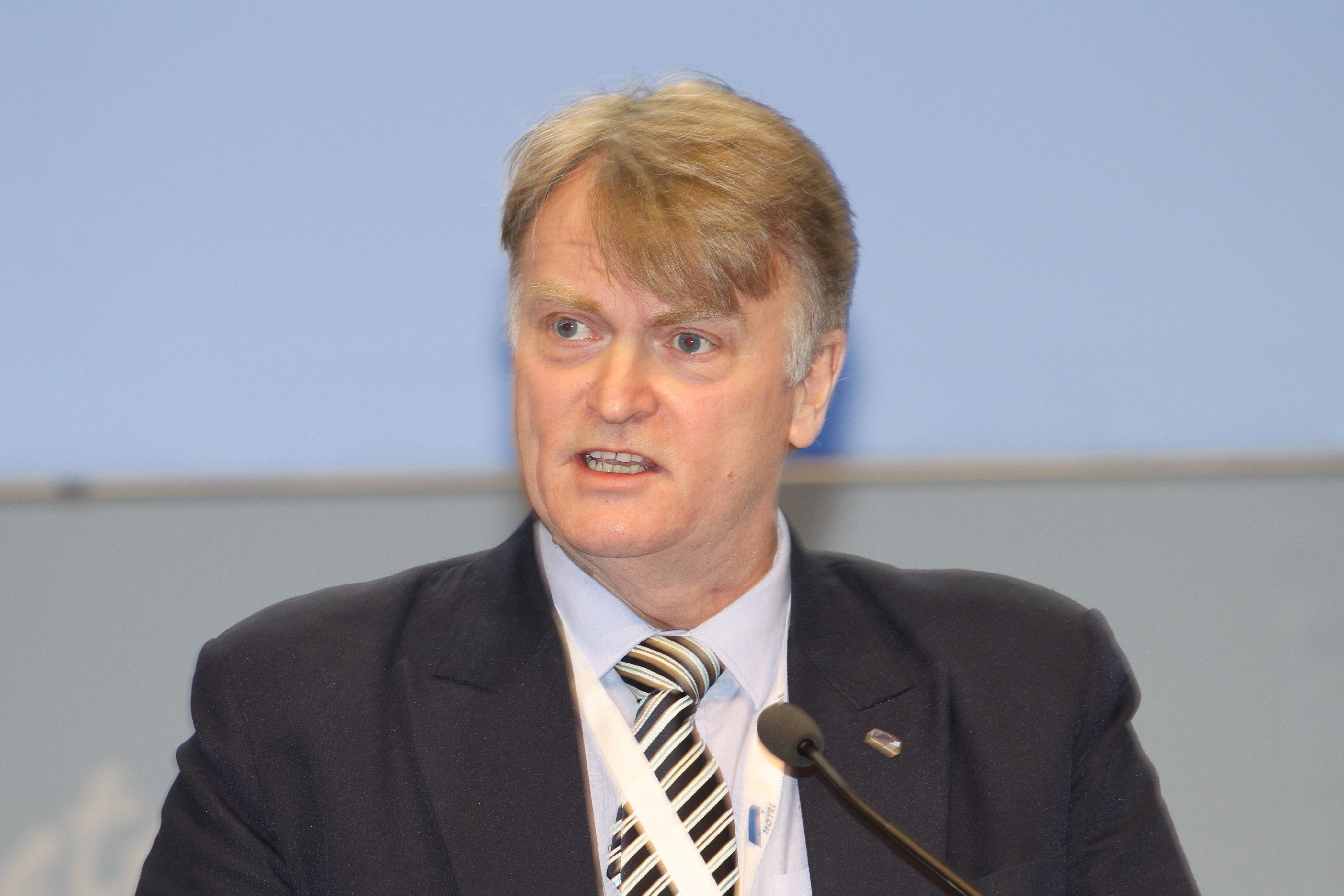 Ove Trellevik